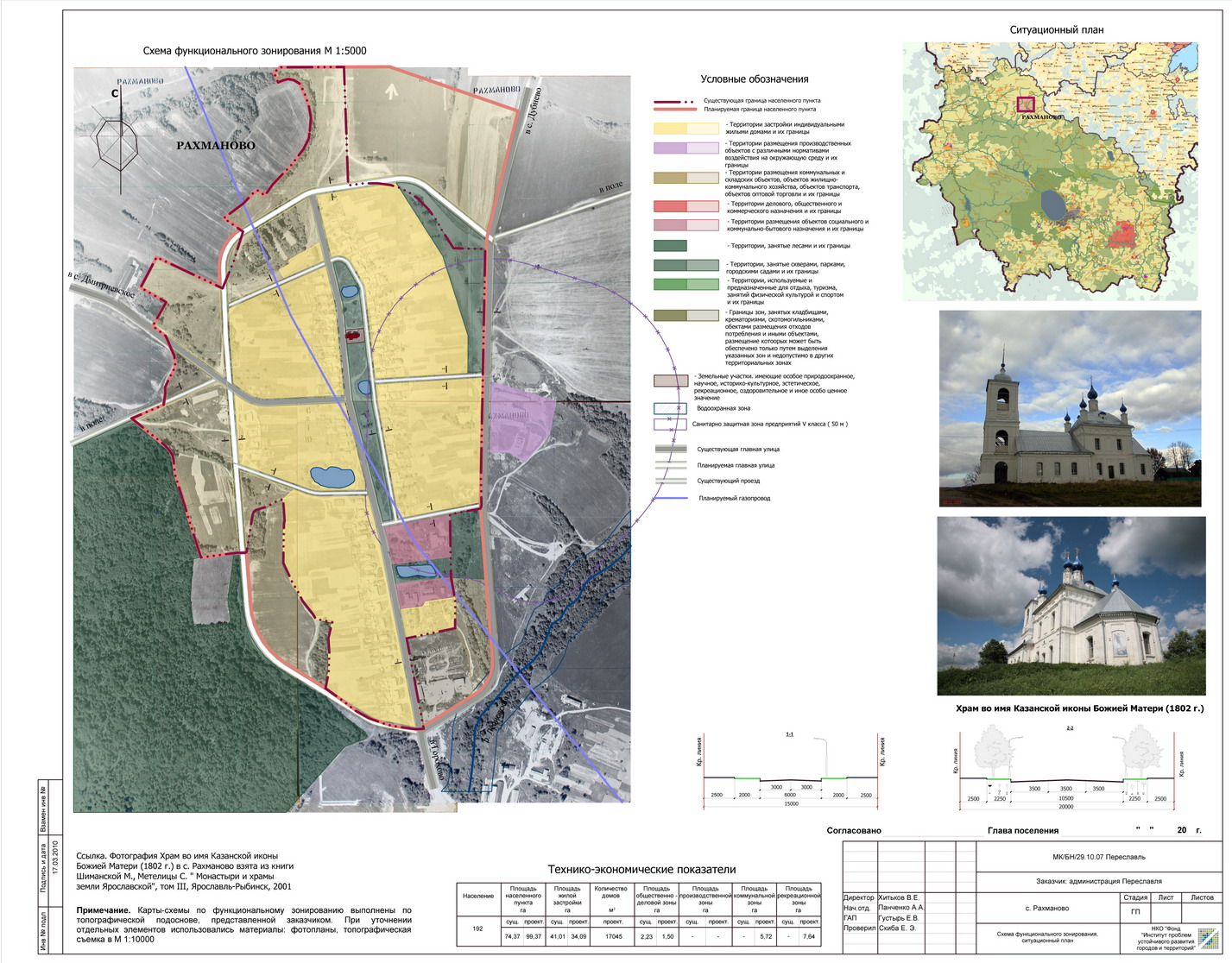 General plan of Nagorye rural settlement (Yaroslavl Oblast) 2008. Rakhmanovo.